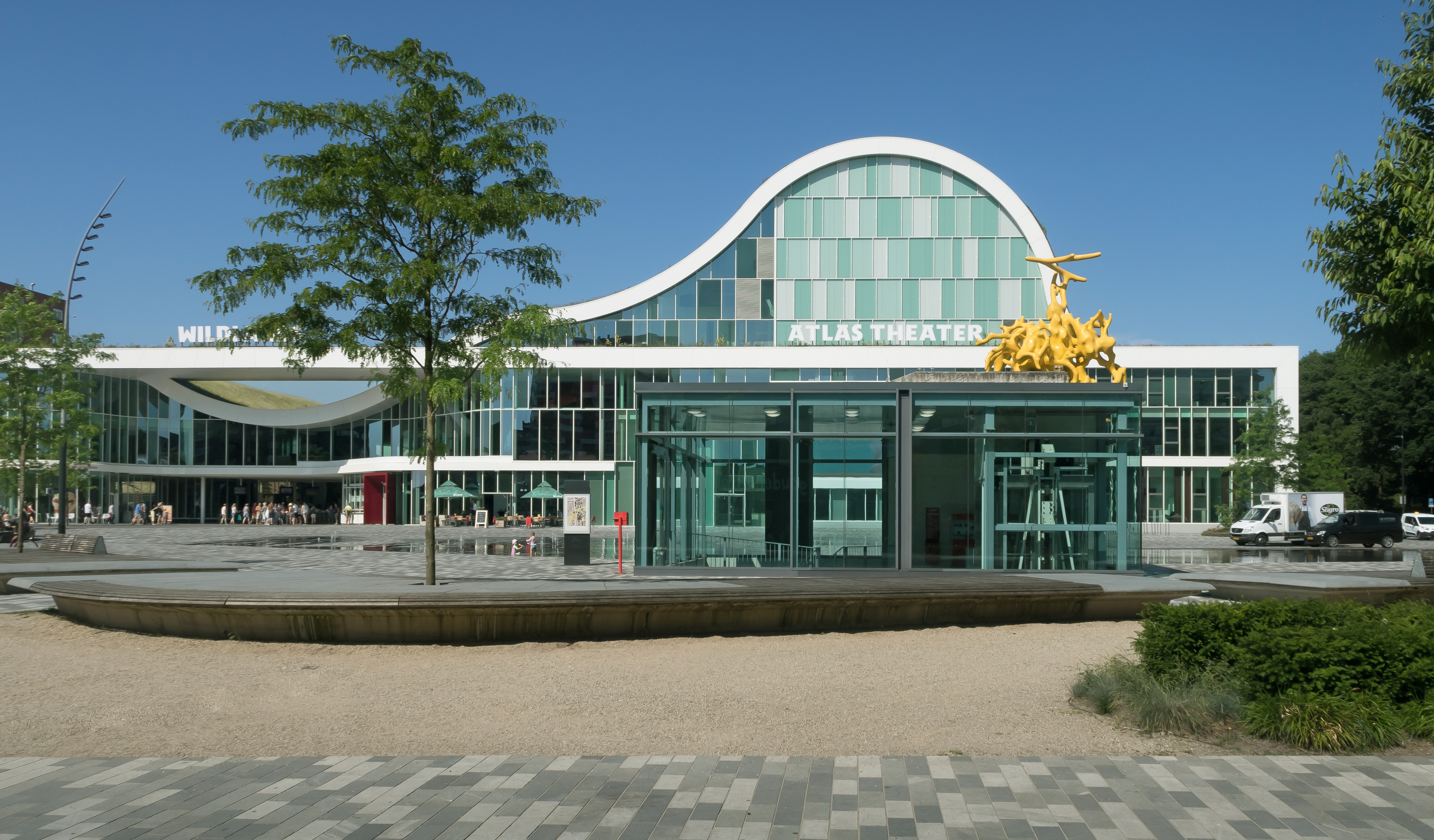 Emmen, the Atlas theater